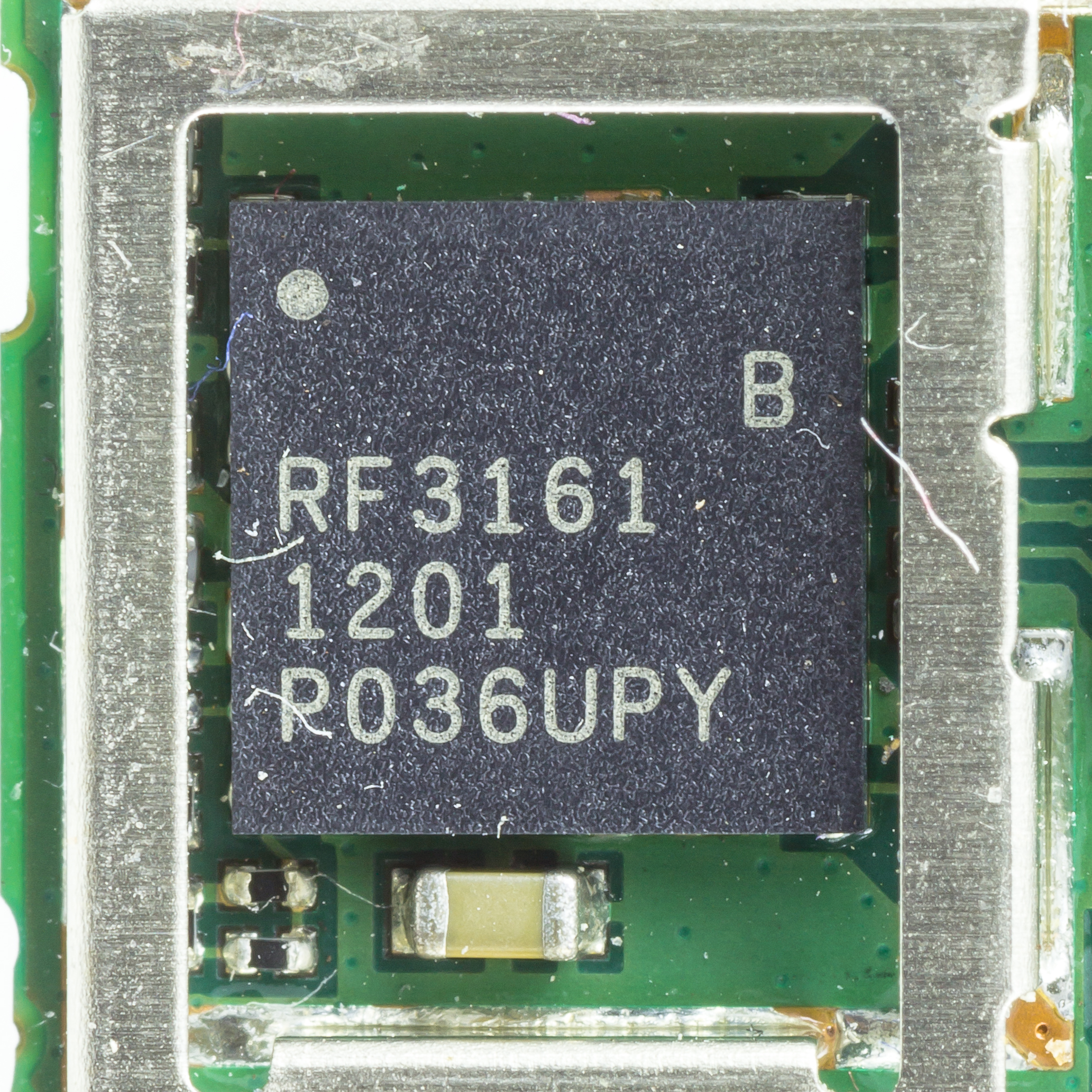 Huawei E367, O2 Surfstick Plus - RF Micro Devices RF3161 (QUAD-BAND GSM850/GSM900/DCS/PCS POWER AMP MODULE)